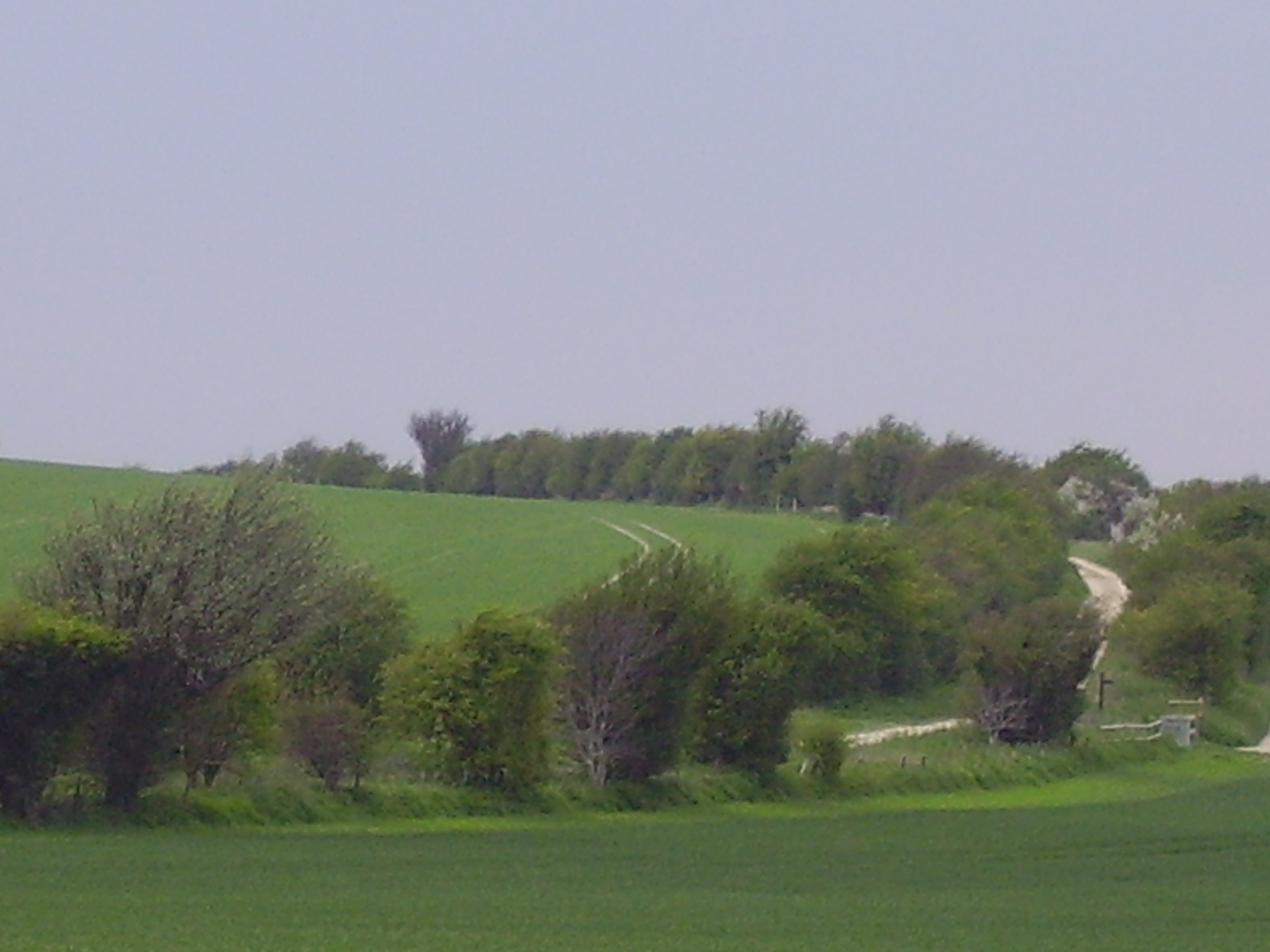 Photographer: User:Ballista Talk